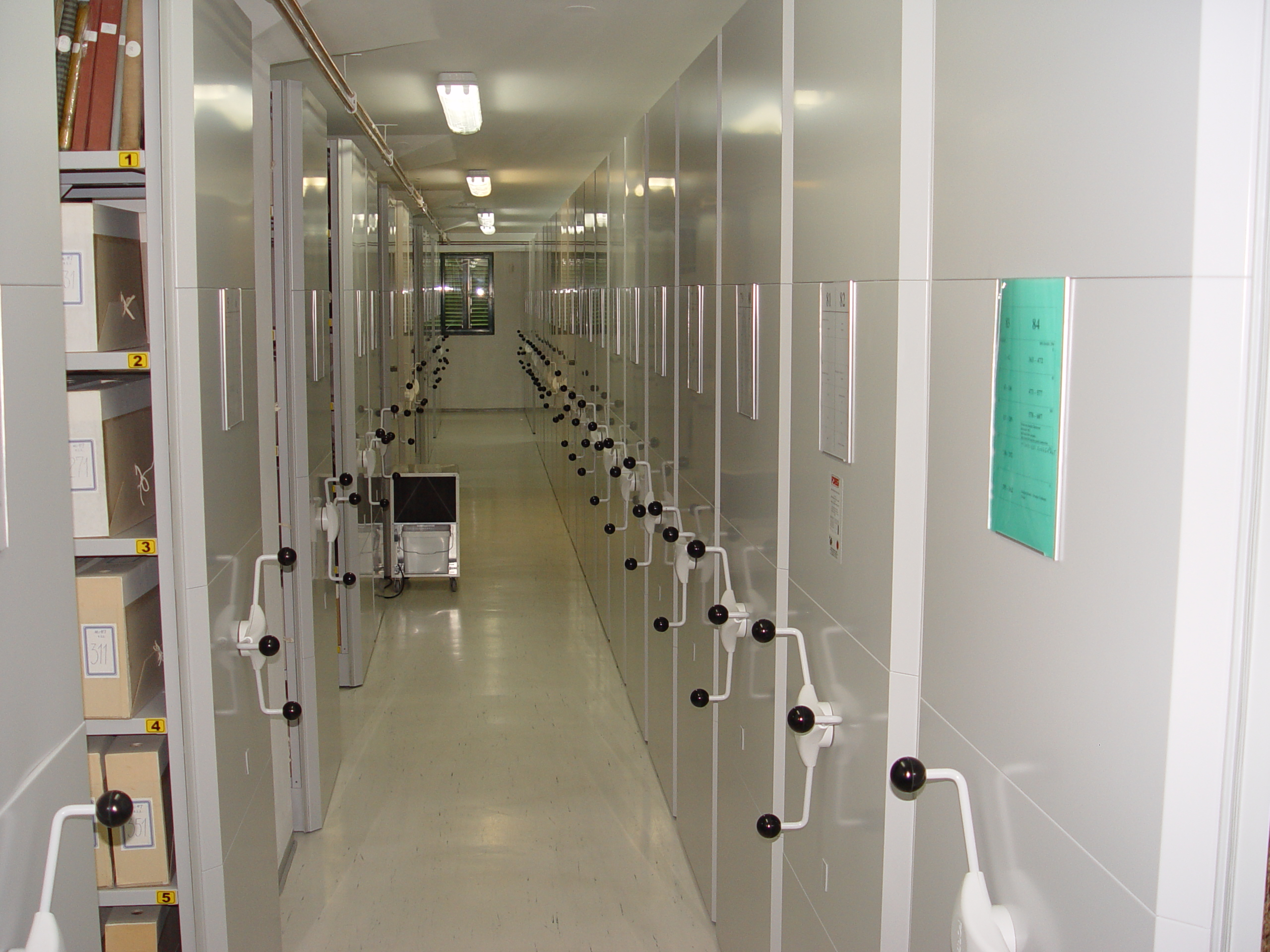 Storage room of the State Archives in Bjelovar